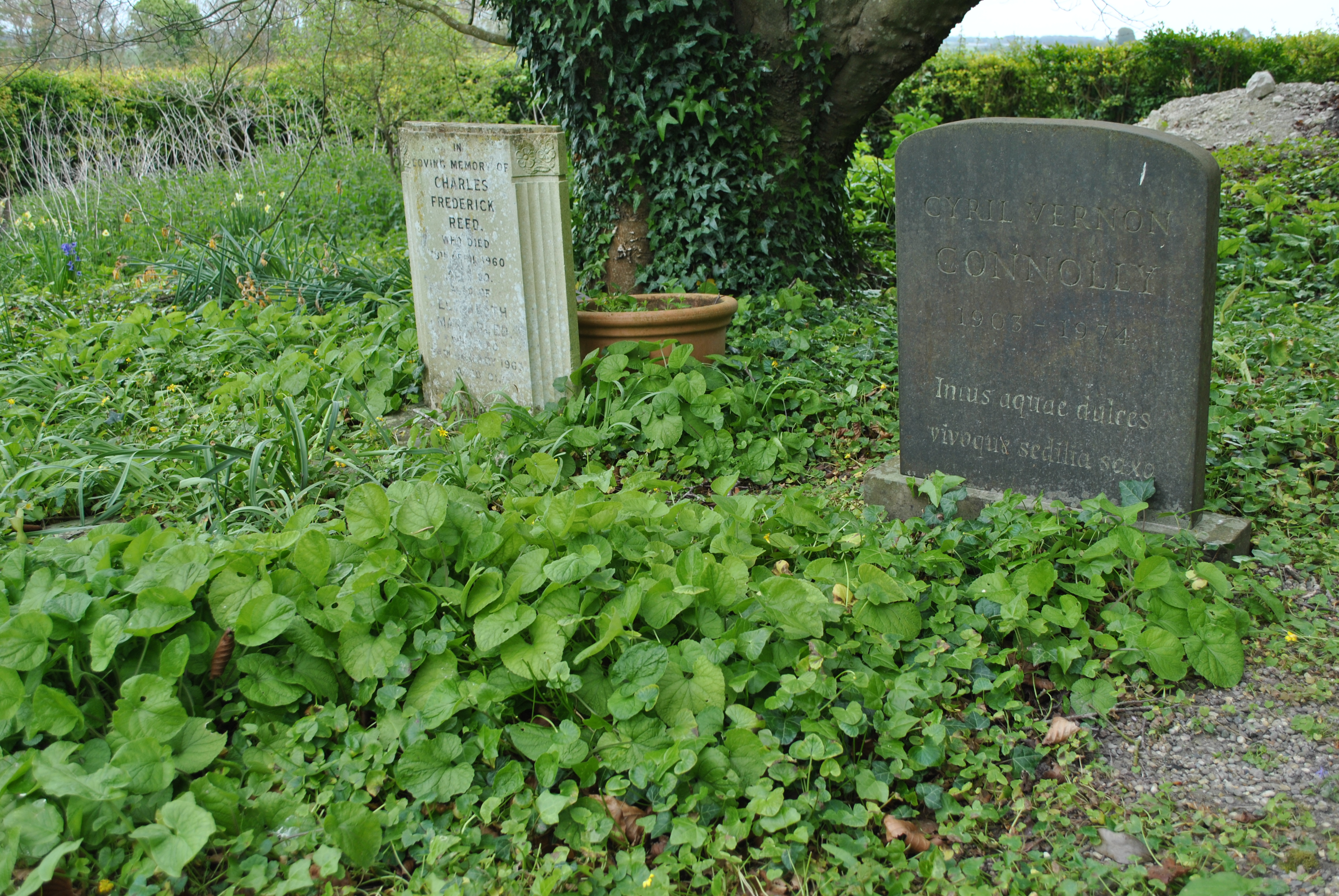 Berwick churchyard, Sussex, 2017, Originally published in Queer Places, Vol. 2.1: Retracing the Steps of LGBTQ people around the World